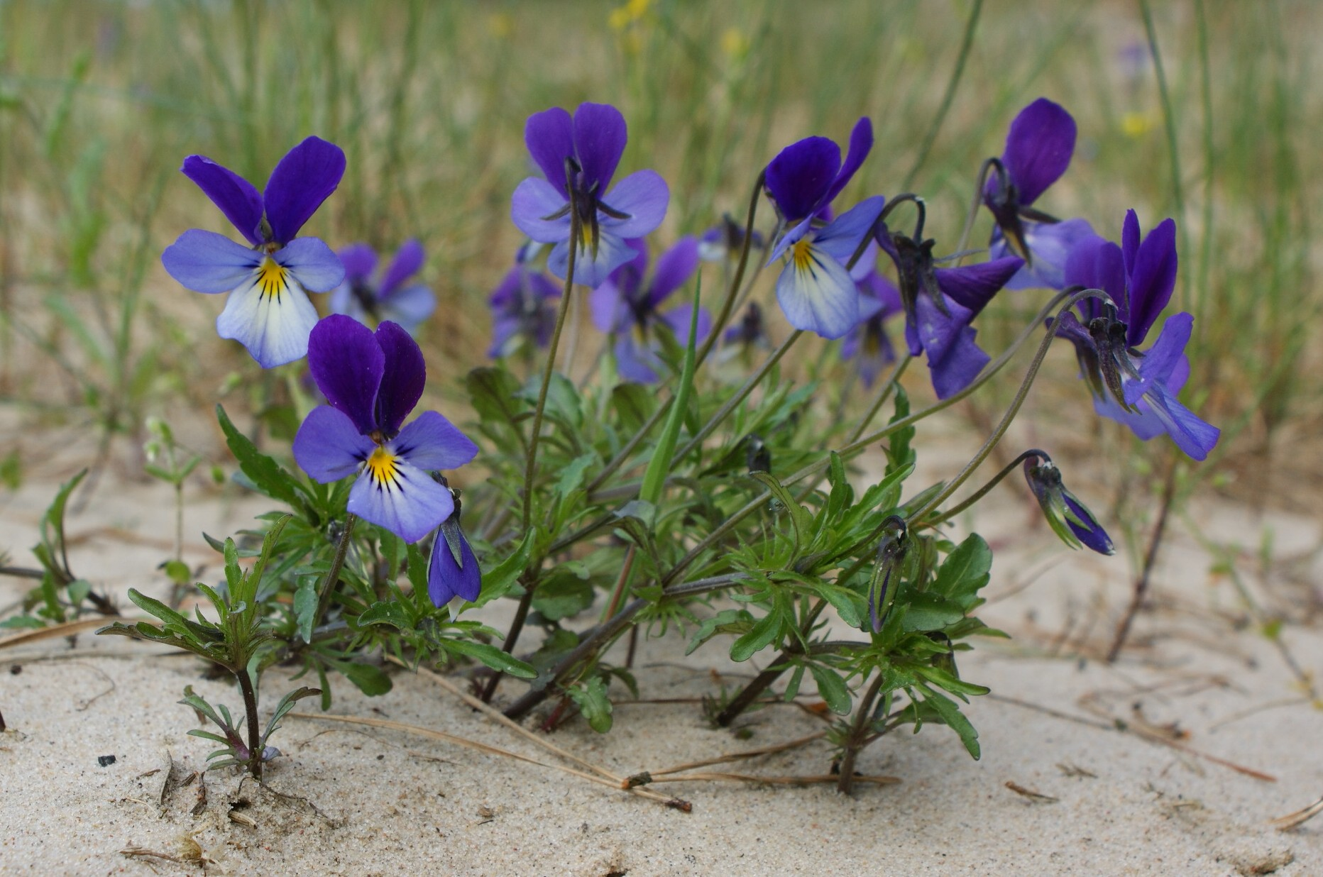 Viola tricolor subsp. maritima. Baltic coast in NW Poland